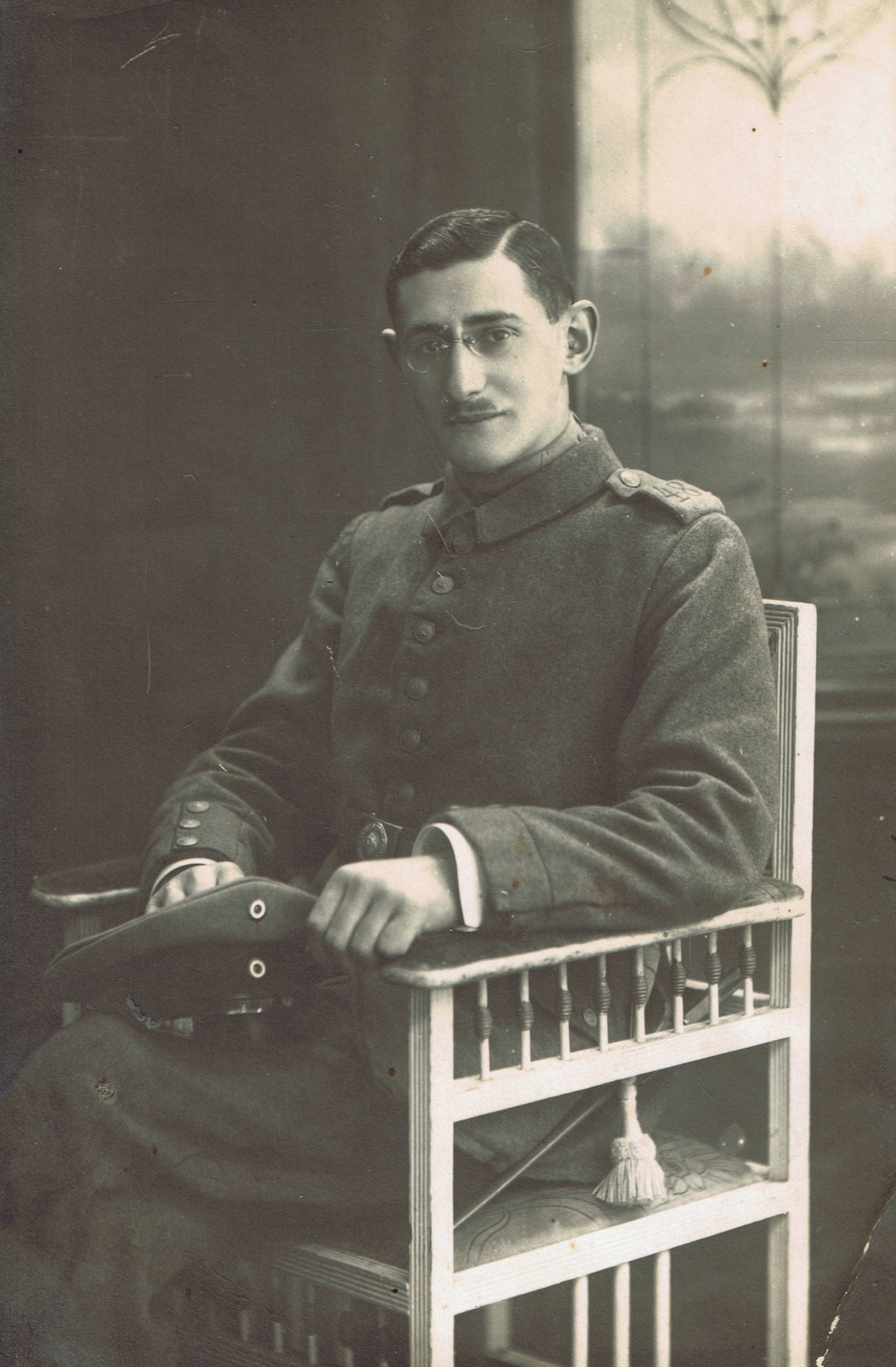 WWI German soldier. Infanterie-Regiment von Stülpnagel (5.Brandenburgisches) Nr.48 aus Cüstrin. (Kurt Salomon)